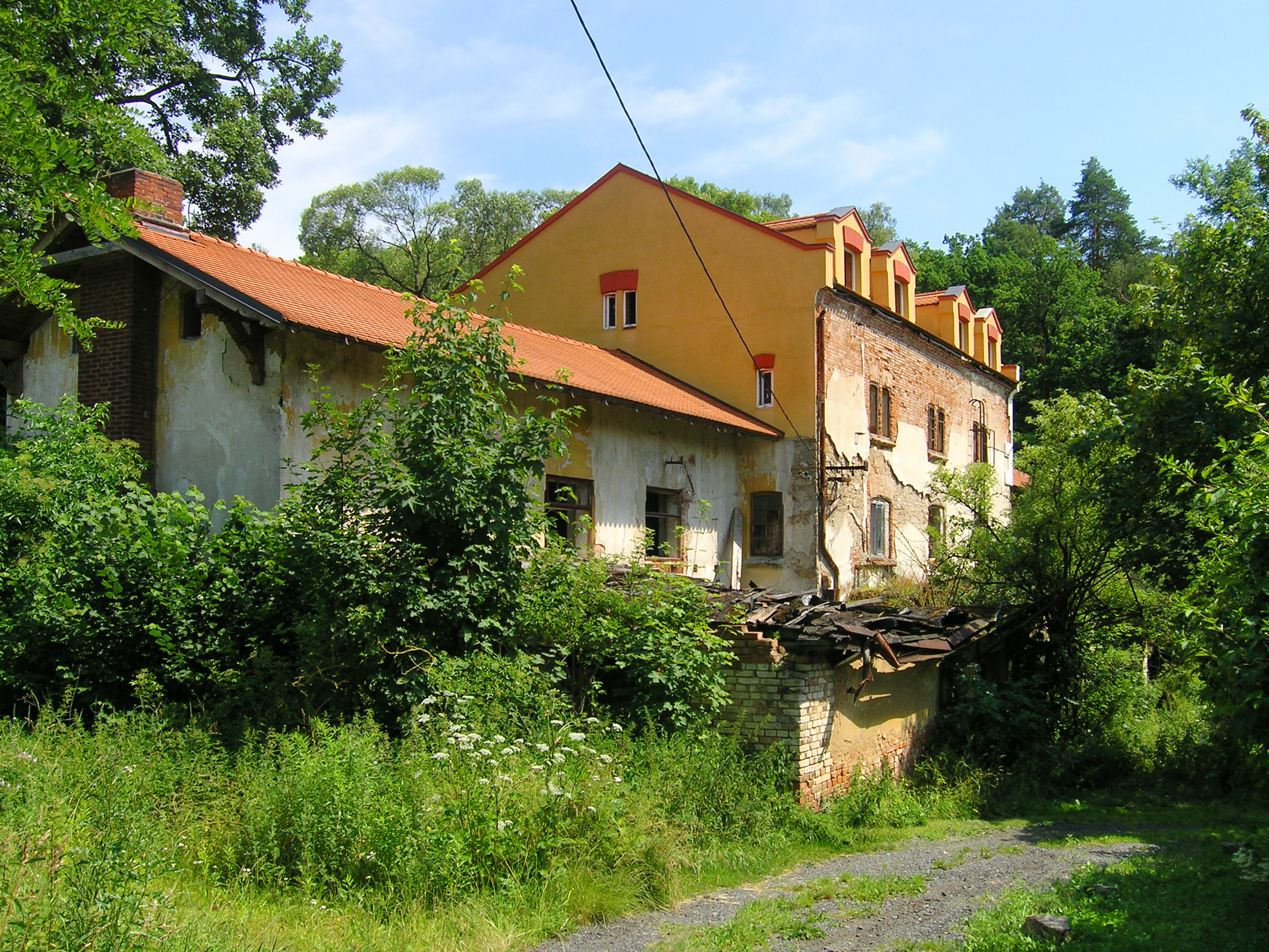 Old millhouse in Olešovice, part of Kamenice village, Czech Republic